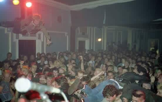 The Clarendon - interior